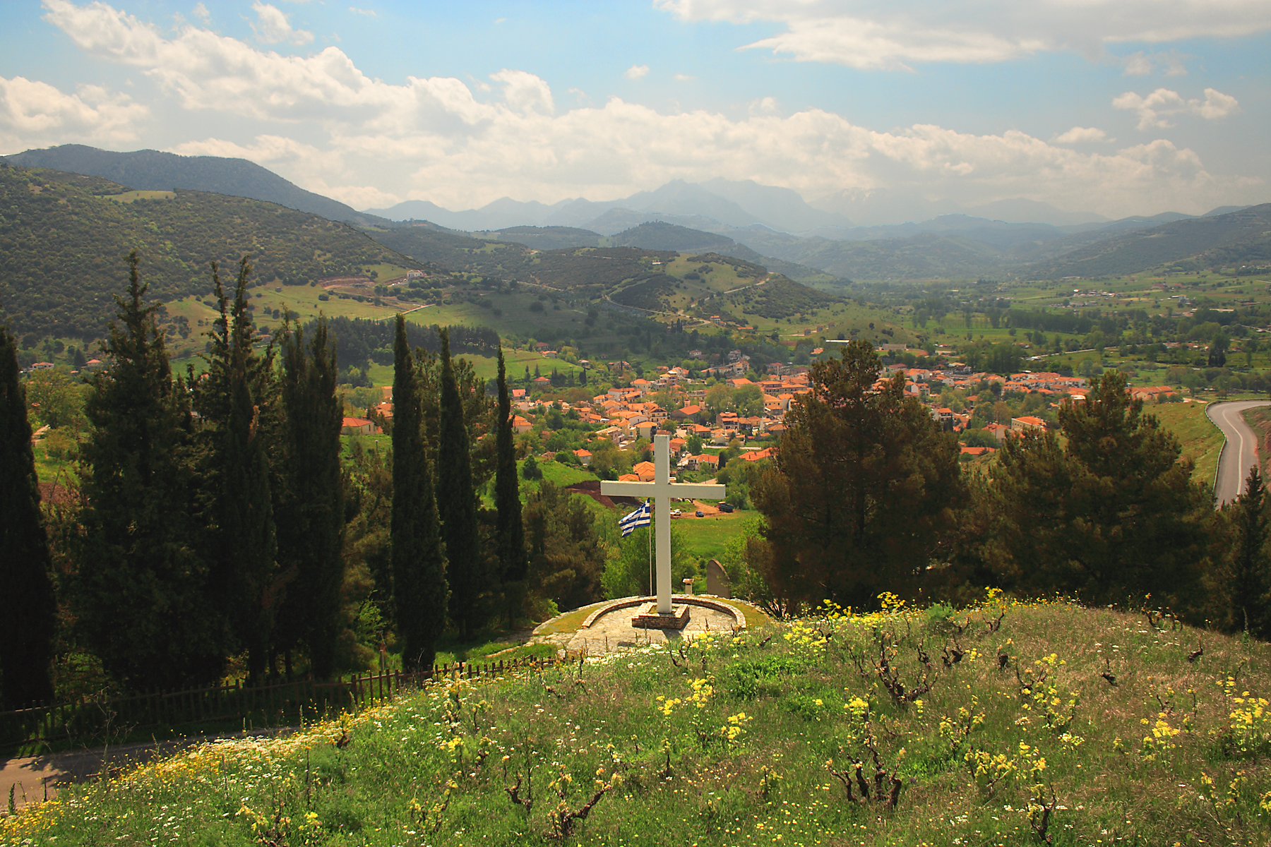 Kalavrita / Kalavryta, Ort in Achaia auf der Peloponnes in 740m. Small town in Achaia, Peloponnese, Greece 2220ft.